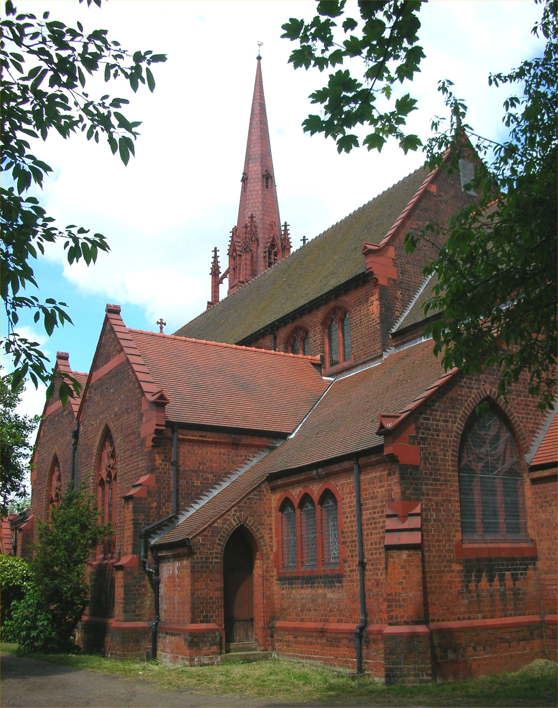 Church of St Mary and St Ambrose, Edgbaston, Birmingham, England, designed by JA Chatwin and completed in 1898